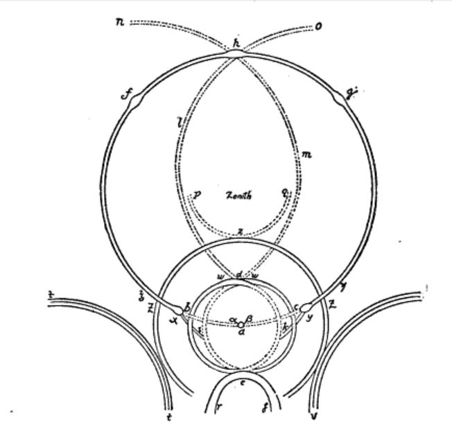 This is a diagram of a display of various halos around the sun which were observed by Johann Tobias Lowitz in St. Petersburg, Russia in 1790. The diagram includes the first depiction of "Lowitz arcs".